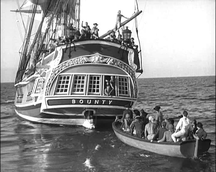 Screenshot from the trailer for the film Mutiny on the Bounty.